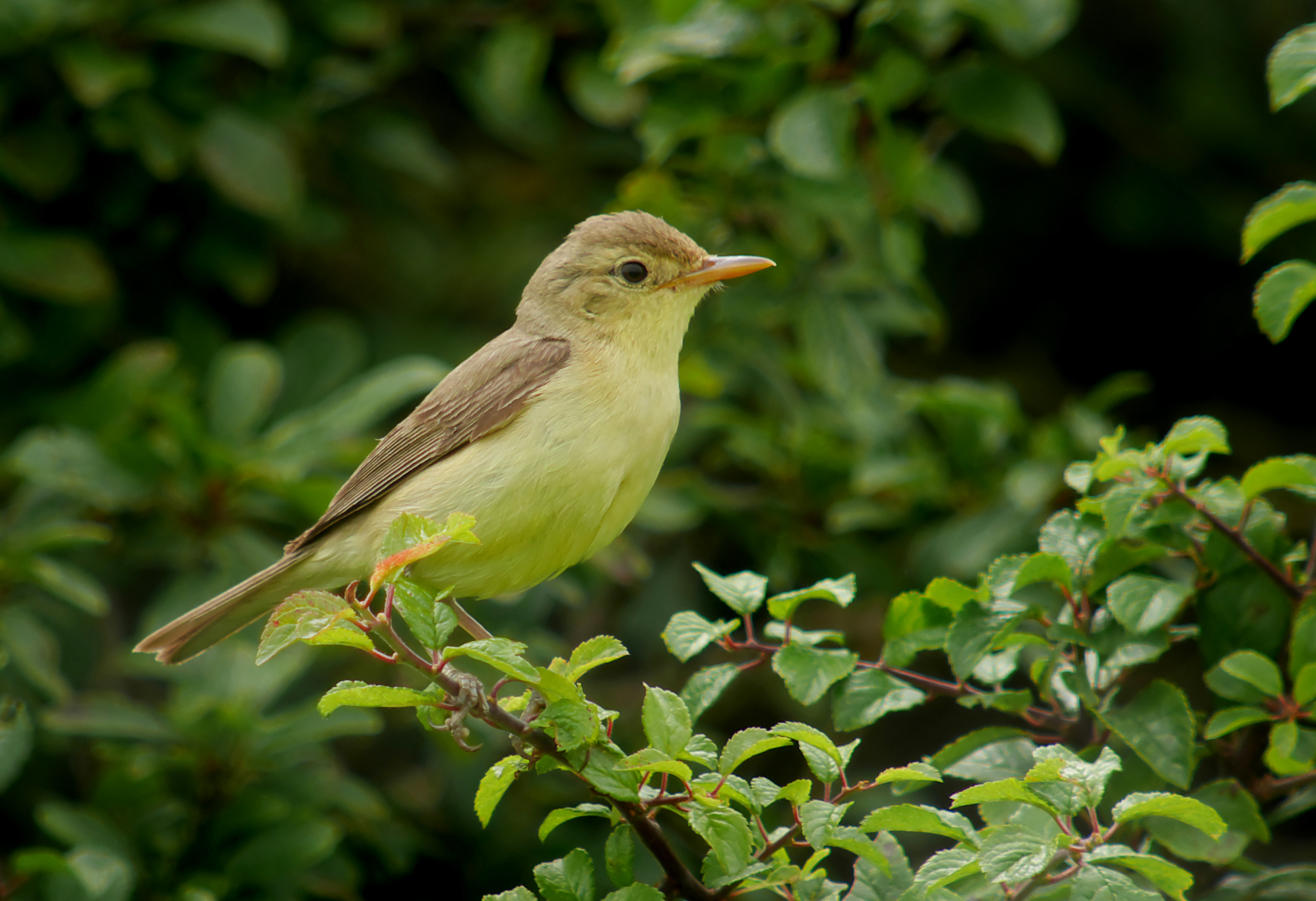 Digiscoping with Swarovski ATM 80 HD 30 X, Panasonic GX7 + Lumix G 20mm F1.7 ASPH lens (Adapter DCB)